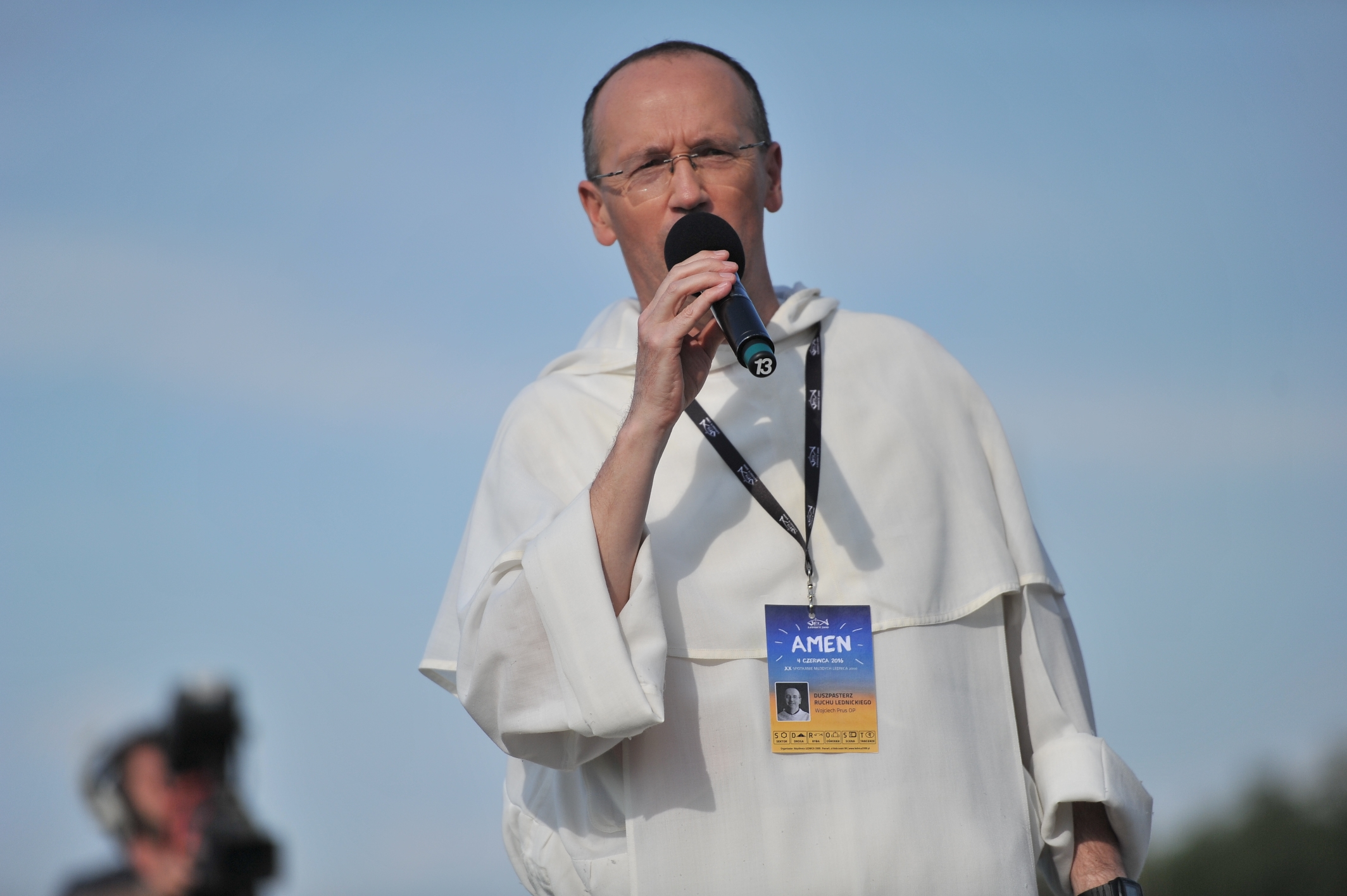 Wojciech Prus OP